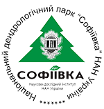 Sofiivka Logo